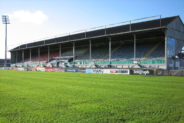 The Stand. The Stand (where you sit) at Ravenhill, the home of Ulster rugby.